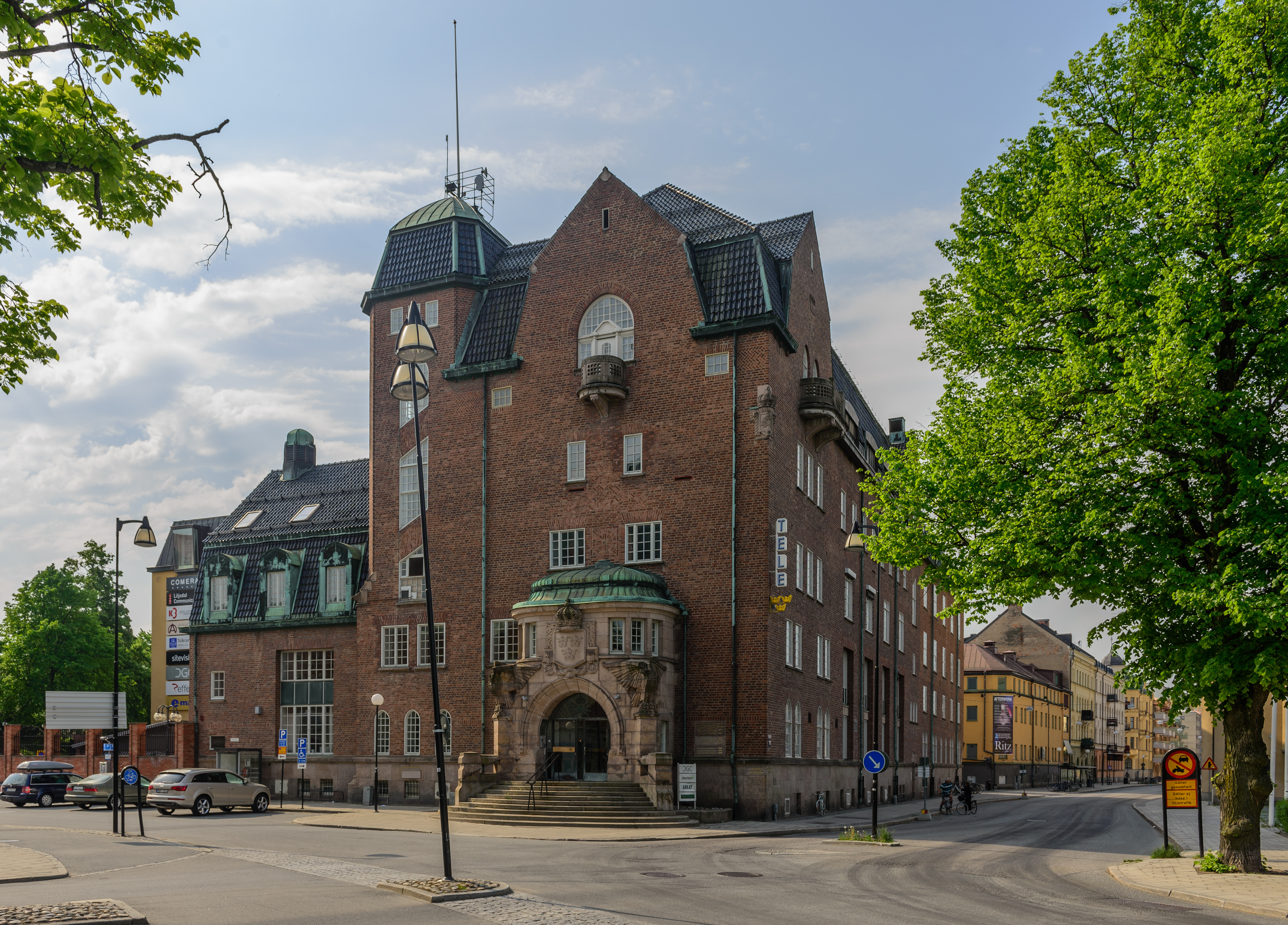 Historic post and telegraphy building, Örebro, Sweden.